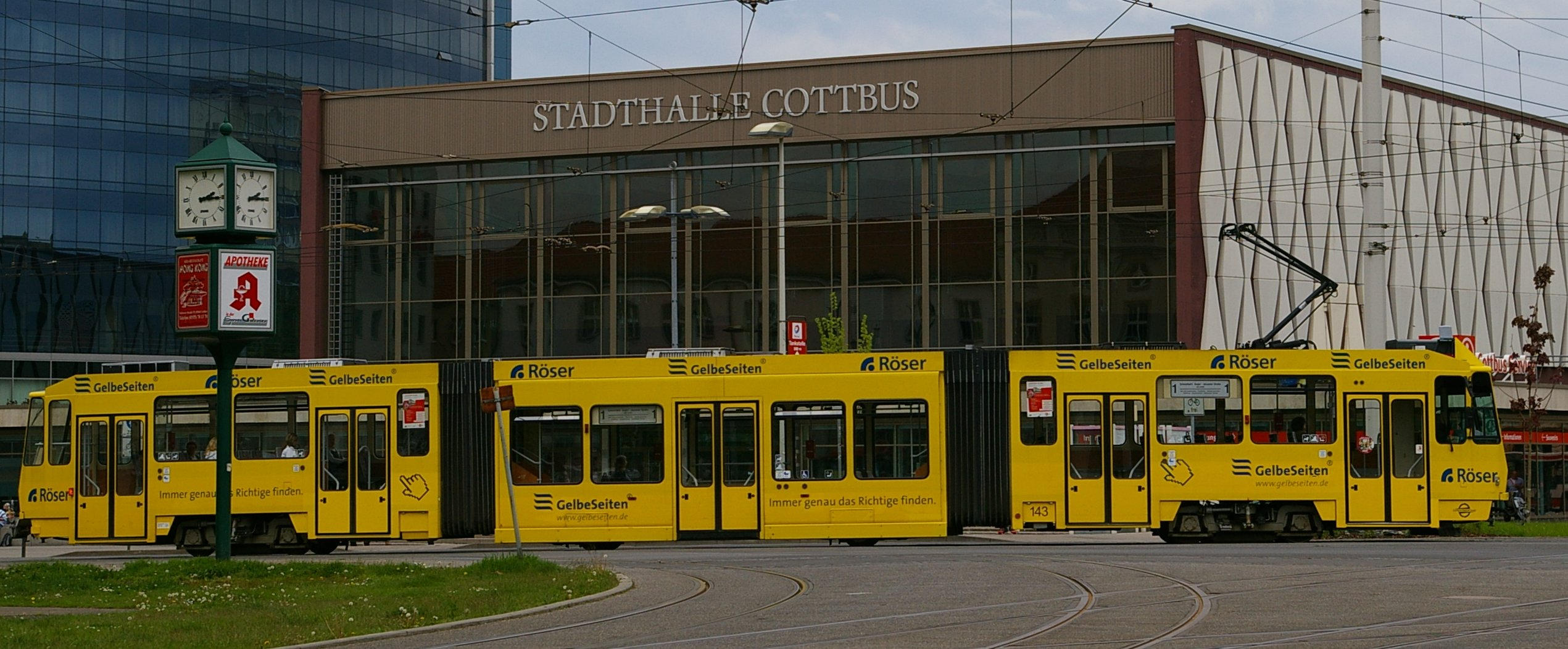 Tatra KTNF6 in Cottbus